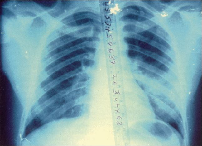 Blast lung. This chest roentgenogram of a soldier who was injured by blast shows bilateral infiltrates from pulmonary contusion. The patient survived without sequelae ~ U.S. Army Wound Data and Munitions Effectiveness Team (WDMET). The WDMET database was comprised from the cases of 7,989 wounded American soldiers in Vietnam from 1967 through 1969. 22 July 1968